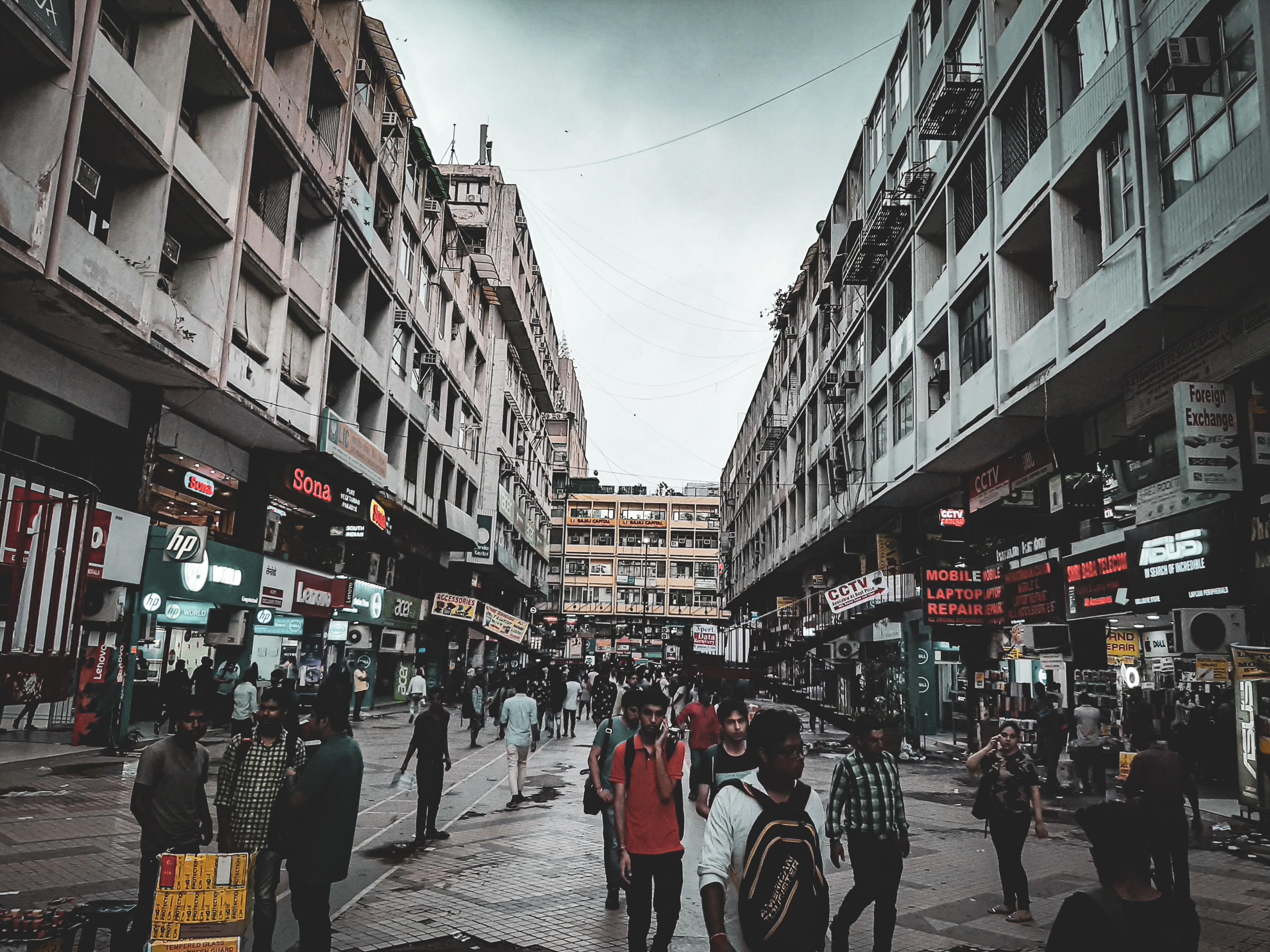 This is the view of nehru place market